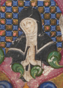 Manuscript page with drawing by the nun-scribe Maria di Ormanno degli Albizzi